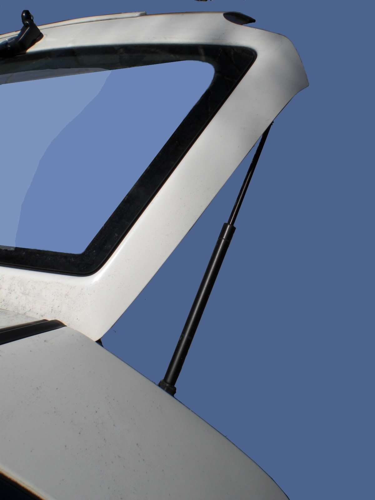 Gas spring in a hatchback automobile. Misleading file naming: hatchback dampener